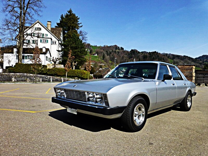 Monteverdi Sedan